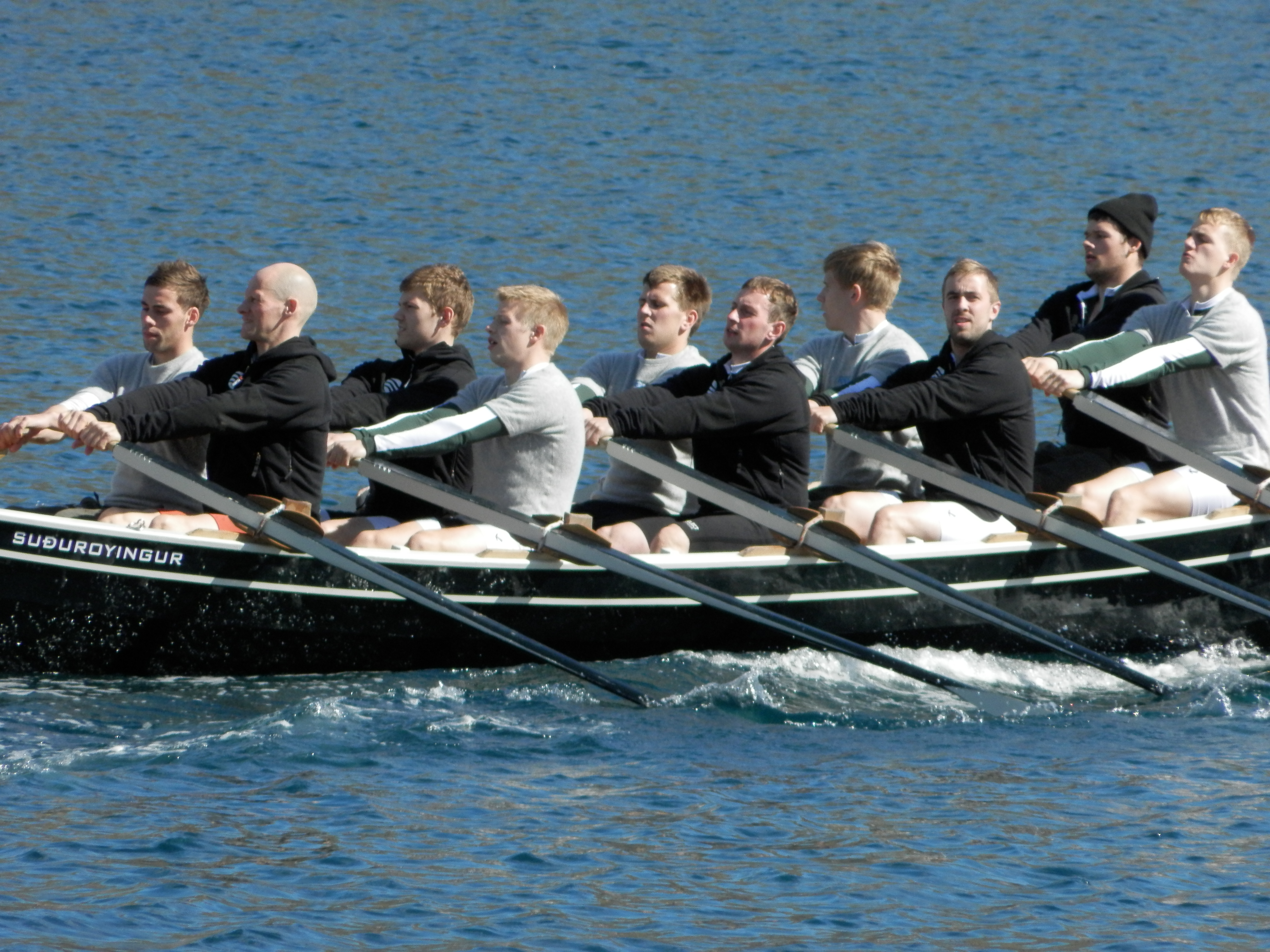 Suðuroyingur is a Faroese wooden rowboat from the island Suðuroy. It is named after the island (it means: comes from Suðuroy). The boat belongs to the new rowing club Suðuroyar Kappróðrarfelag, which was founded in 2011. Here they are on their way out to the starting point for the Fjarðastevna Cup 2012 in Vestmanna. Føroyskt: Suðuroyingur er eitt 10-mannafar hjá Suðuroyar Kappróðrarfelag. Sámal Hansen smíðaði henda bátin í 2011-2012. Hetta er fyrsta árið, at báturin og felagið luttekur í føroyskum kappróðri. Suðuroyingur varð nummar tvey á Norðoyastevnu og á Vestanstevnu, nummar trý á Sundalagsstevnu og nummar eitt á Jóansøku. Á Fjarðastevnu gjørdist hann nummar tvey og á Vestanstevnu gjørdist hann nummar trý. Flestu róðrarnar hava verið sera tættir, serliga millum tríggjar teir fremstu bátarnar: Klaksvíking, Suðuroying og Vestmenning, við einum sekundi ella brotpartar av einum sekundi ímillum teir.